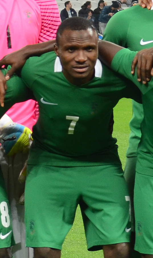 São Paulo - Colômbia vence a Nigéria por 2x0 na Arena Corinthians (Rovena Rosa/Agência Brasil)